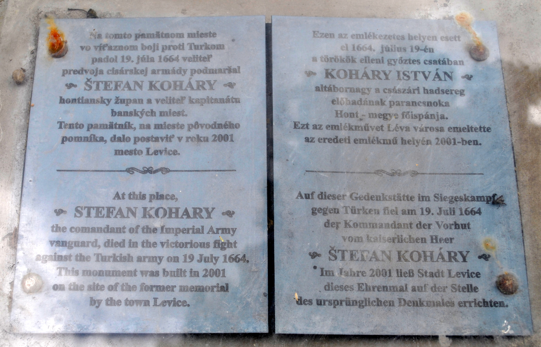 Memorial of István I Koháry in Levice